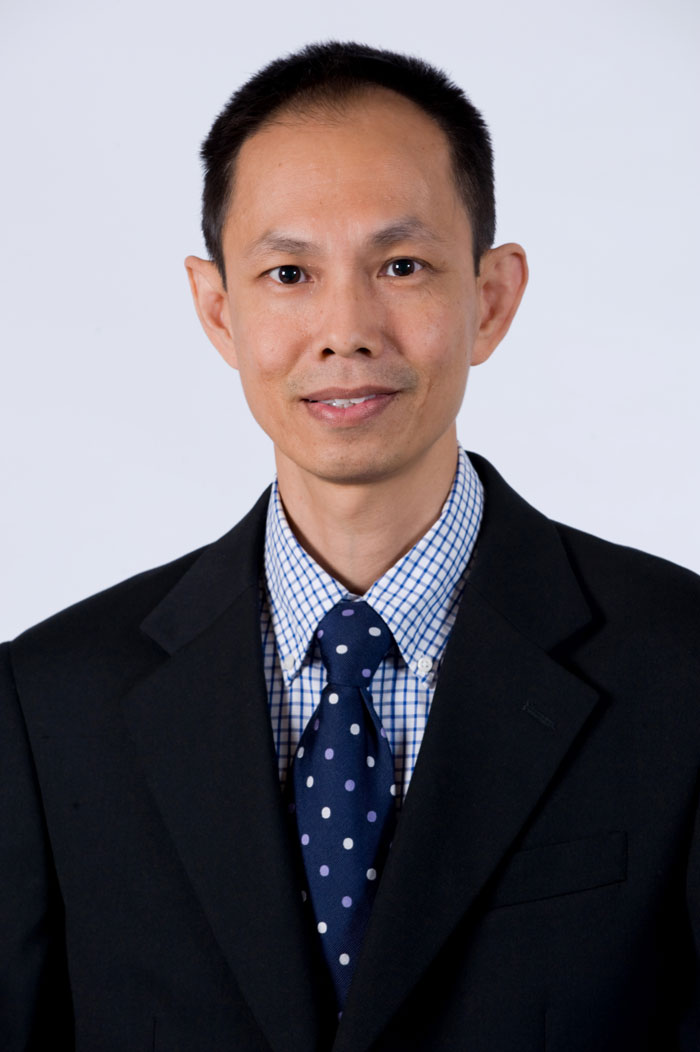 Professor Gary Goh